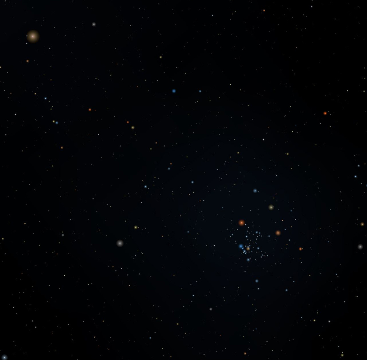 Open cluster NGC 2516.